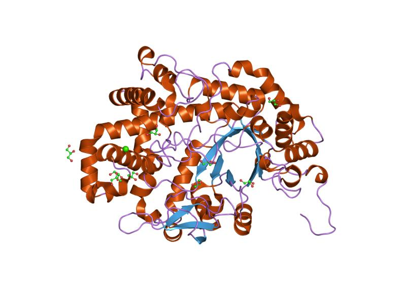 Cartoon representation of the molecular structure of protein registered with 1x1n code.